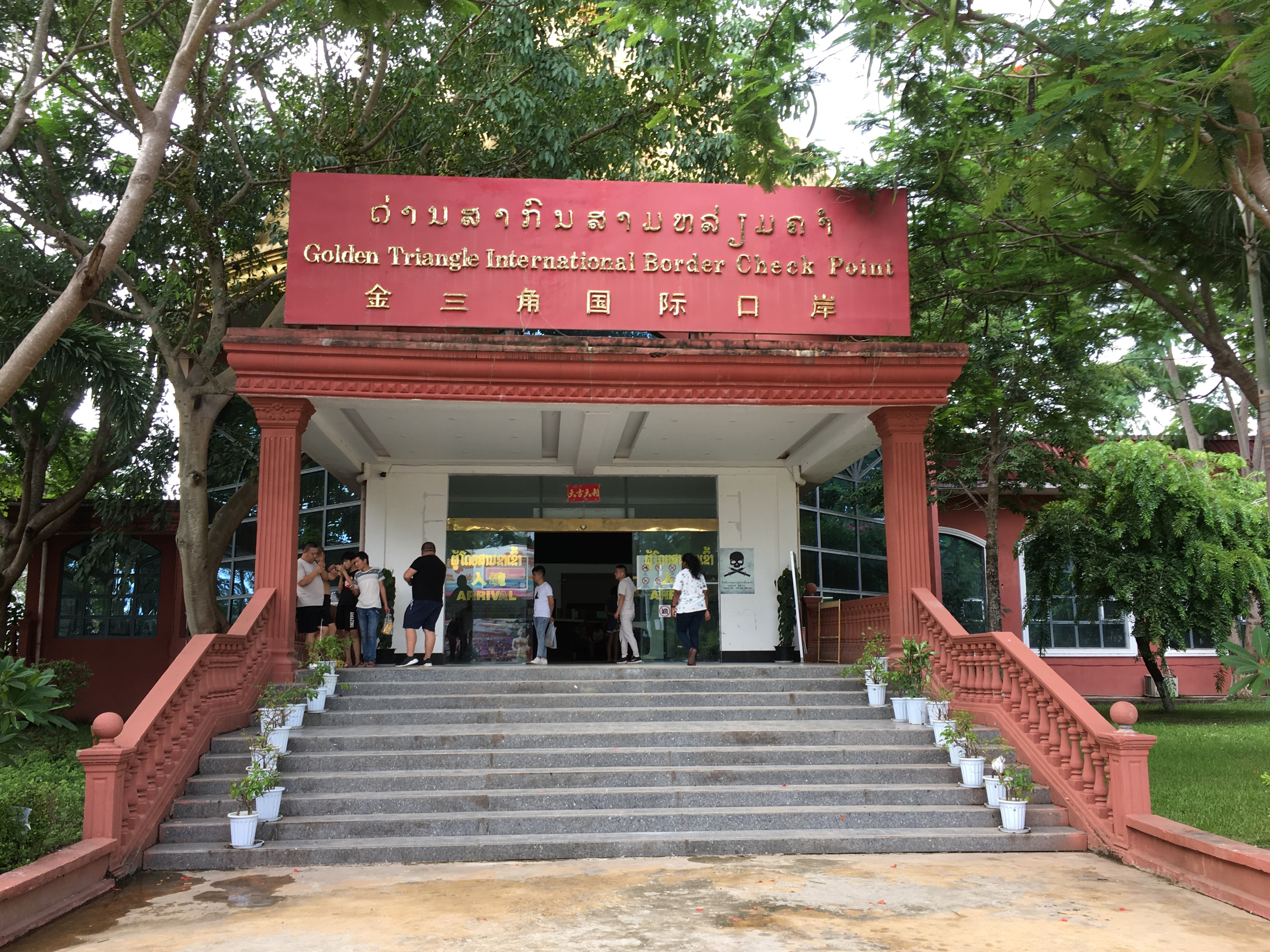 Entrance into the Sam Liam Kham Checkpoint building in the Golden Triangle Special Economic Zone in Bokeo Province, Laos.